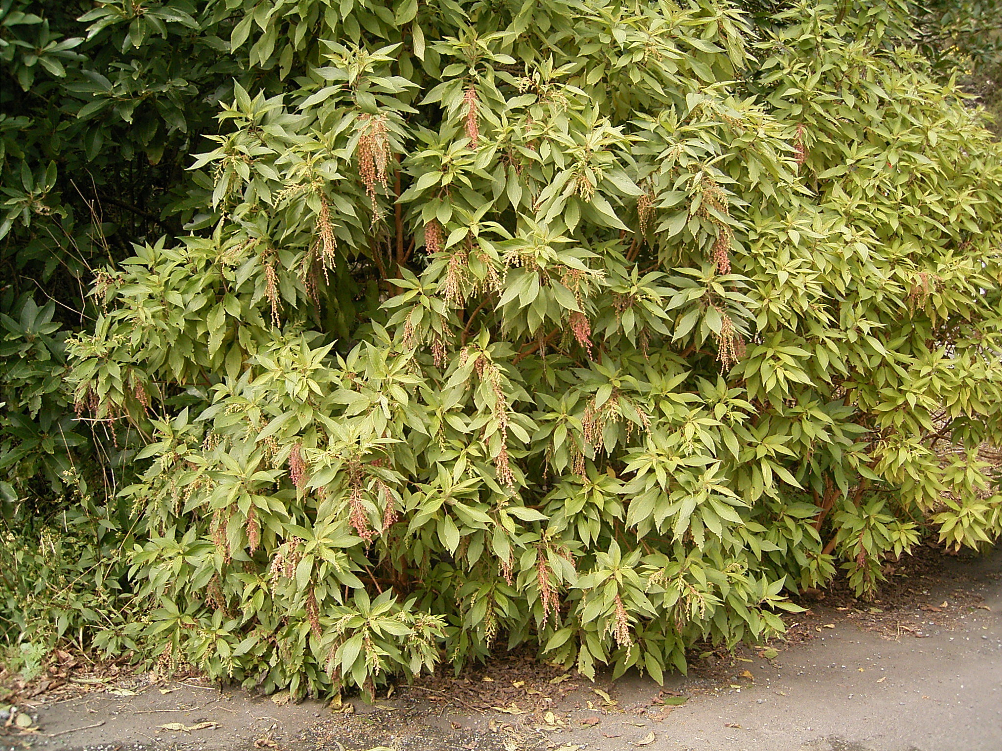 Gesnouinia arborea growing in Breña Alta, La Palma, Canary Islands